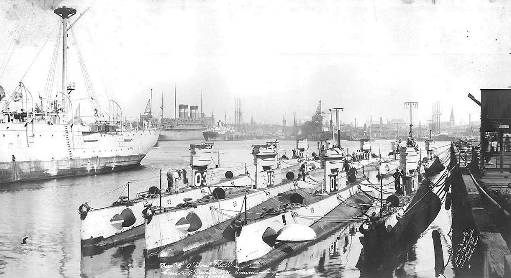 Nine of Submarine Division 8's ten "O" type submarines, Commanded by Commander Guy E. Davis at the Boston Navy Yard, Charlestown, Massachusetts, 16 August 1921. Submarines in the front row are (from left to right): O-3 (SS-64), O-6 (SS-67), O-9 (SS-70) and O-1 (SS-62). Those in the second row are (from left to right): O-7 (SS-68), unidentified (either O-2 or O-8), O-5 (SS-66), O-10 (SS-71) and O-4 (SS-65). Large four-stacked ship in the left center distance is the Mount Vernon.